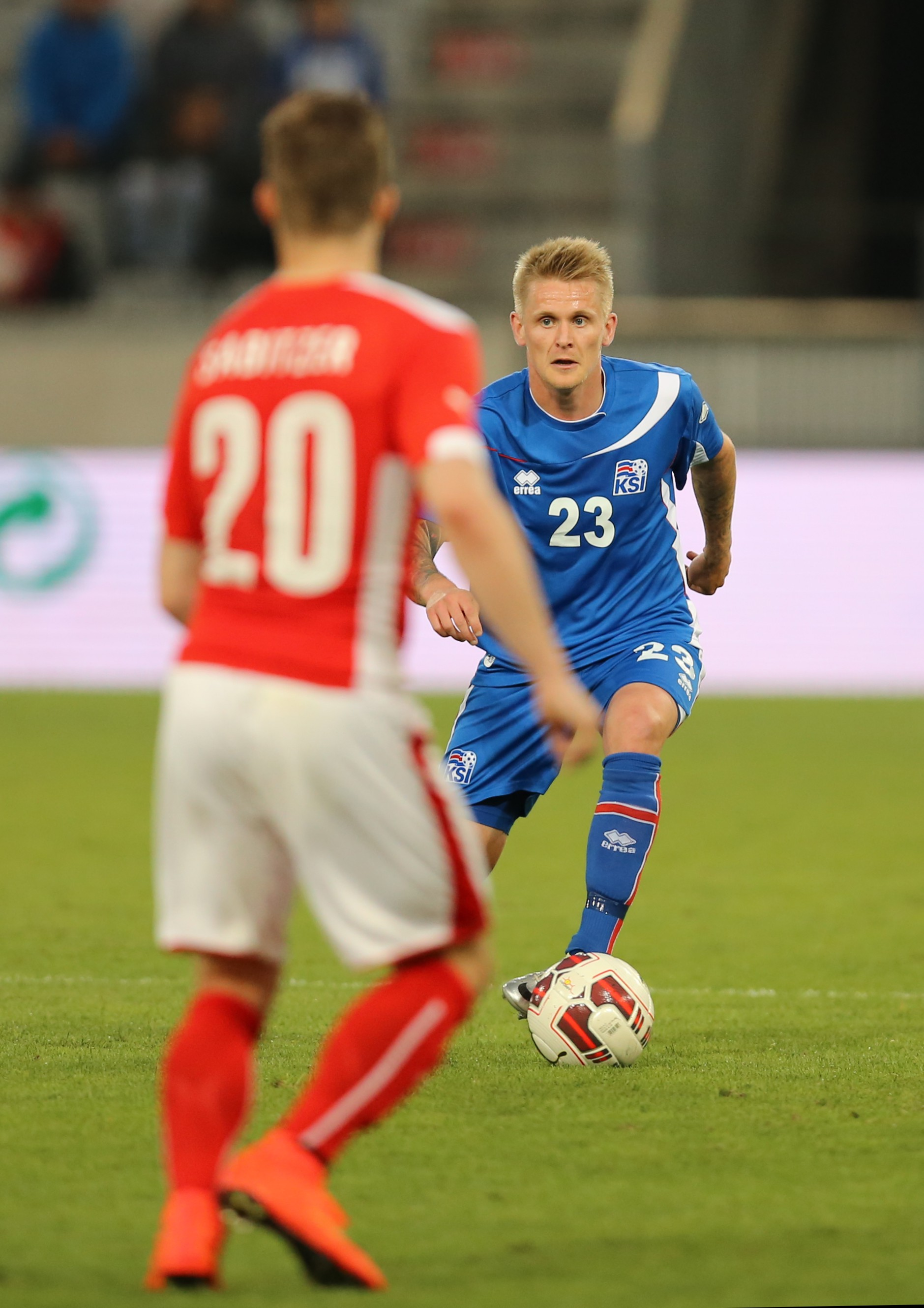 Austria - Iceland football match in Innsbruck, Austria on 2014-05-30. Austria in red, Iceland in blue.